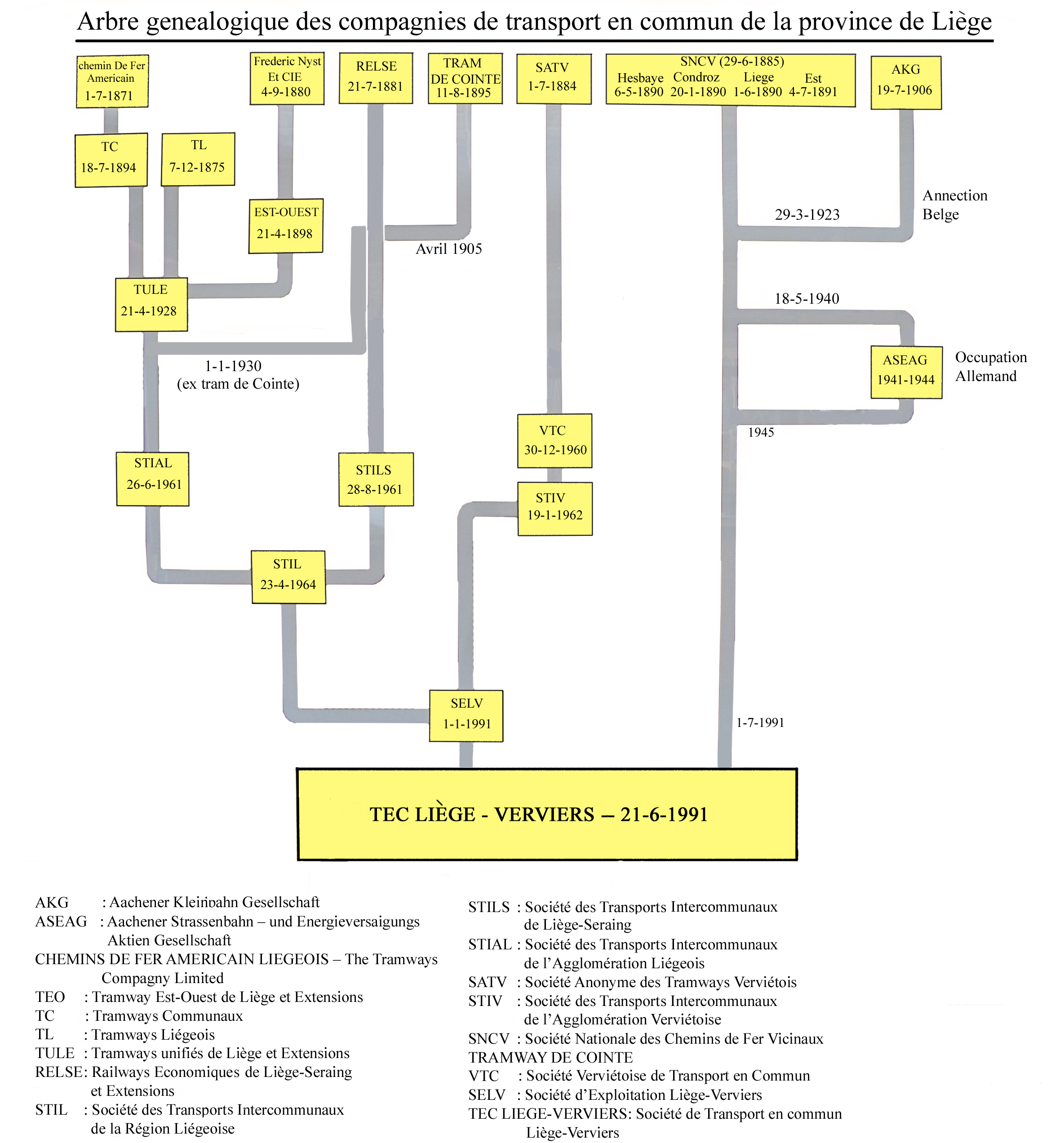 Family tree of the tramway compagnies in the province of Liege.